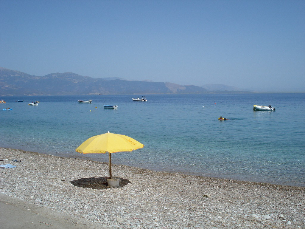 Selianitika beach and the clear waters of Corinth Gulf